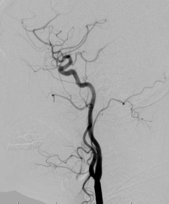 Angiogram arteria carotis interna